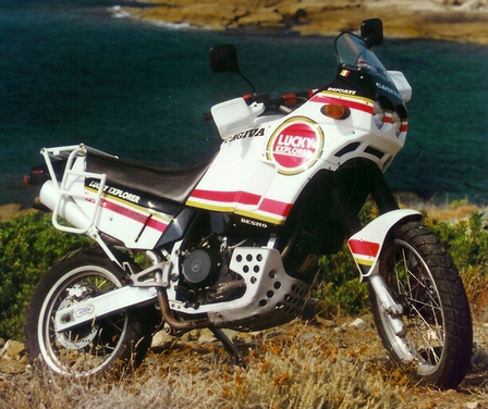 Cagiva Elefant 900 ie Lucky Explorer